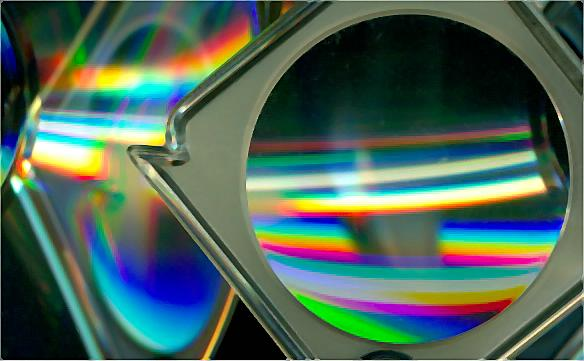 Image produced by arranging CD-ROMs and a magnifying glass on a flatbed scanner. Shows results of refraction, reflection, and diffraction.